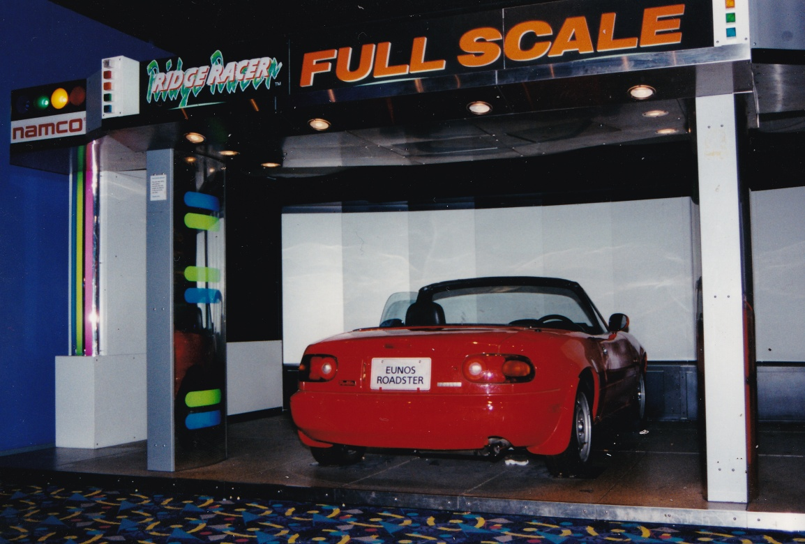 Ridge Racer Full scale, taken at Hollywood Bowl Stockton-on-Tees